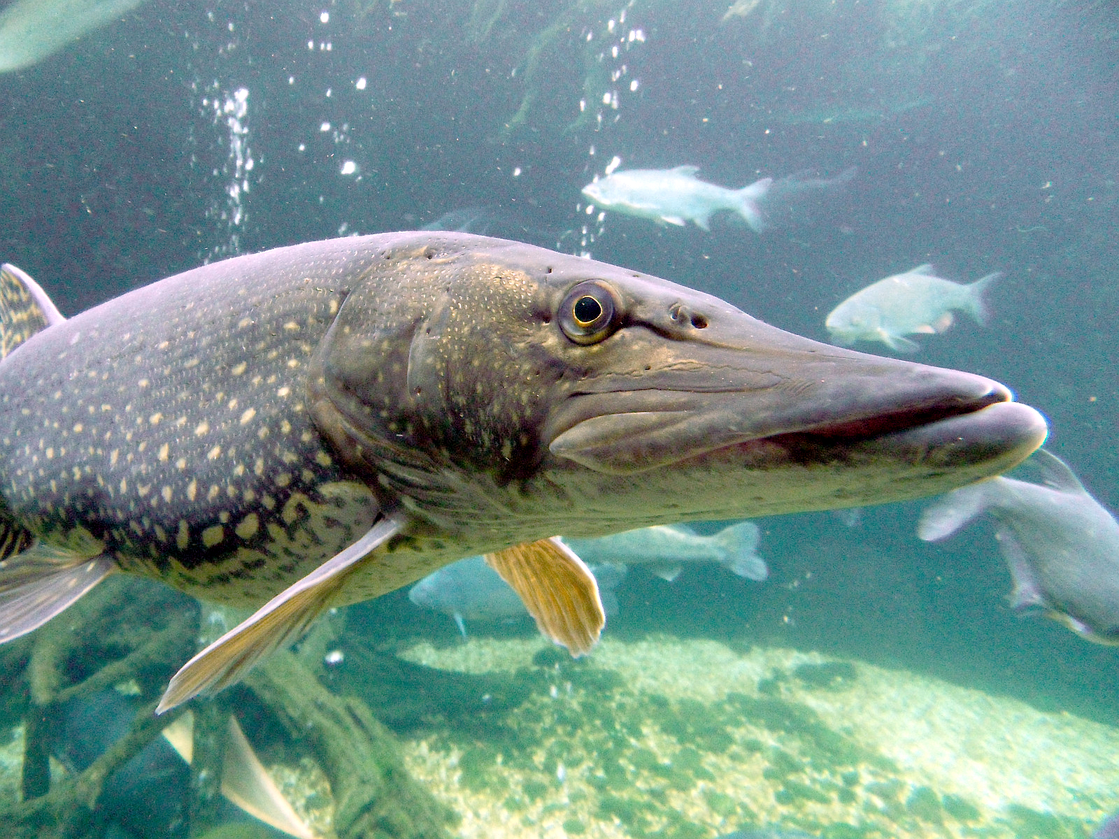 Pike in ZOO Plzeň